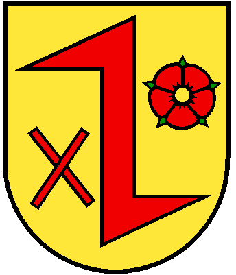 Wappen der Stadt Dinklage (Coat of arms of the town of Dinklage, Germany)